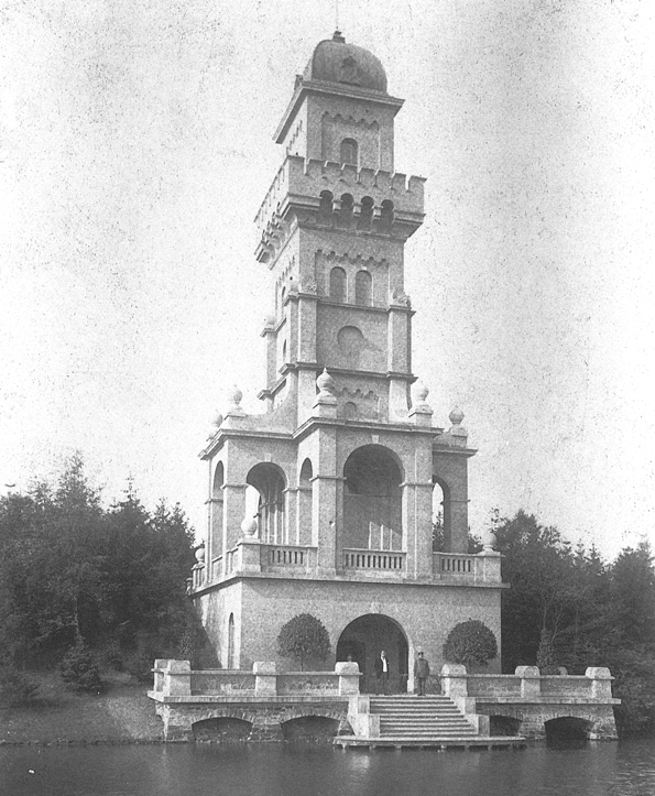 Former look-out in the Bürgerpark in Bremen, Germany, (1892). The tower was built in the year 1889 and destroyed during the second world war.